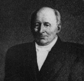 Portrait of Samuel Heinrich Schwabe (1789-1875). Oil on Canvas, Dessau Town Hall (Germany)